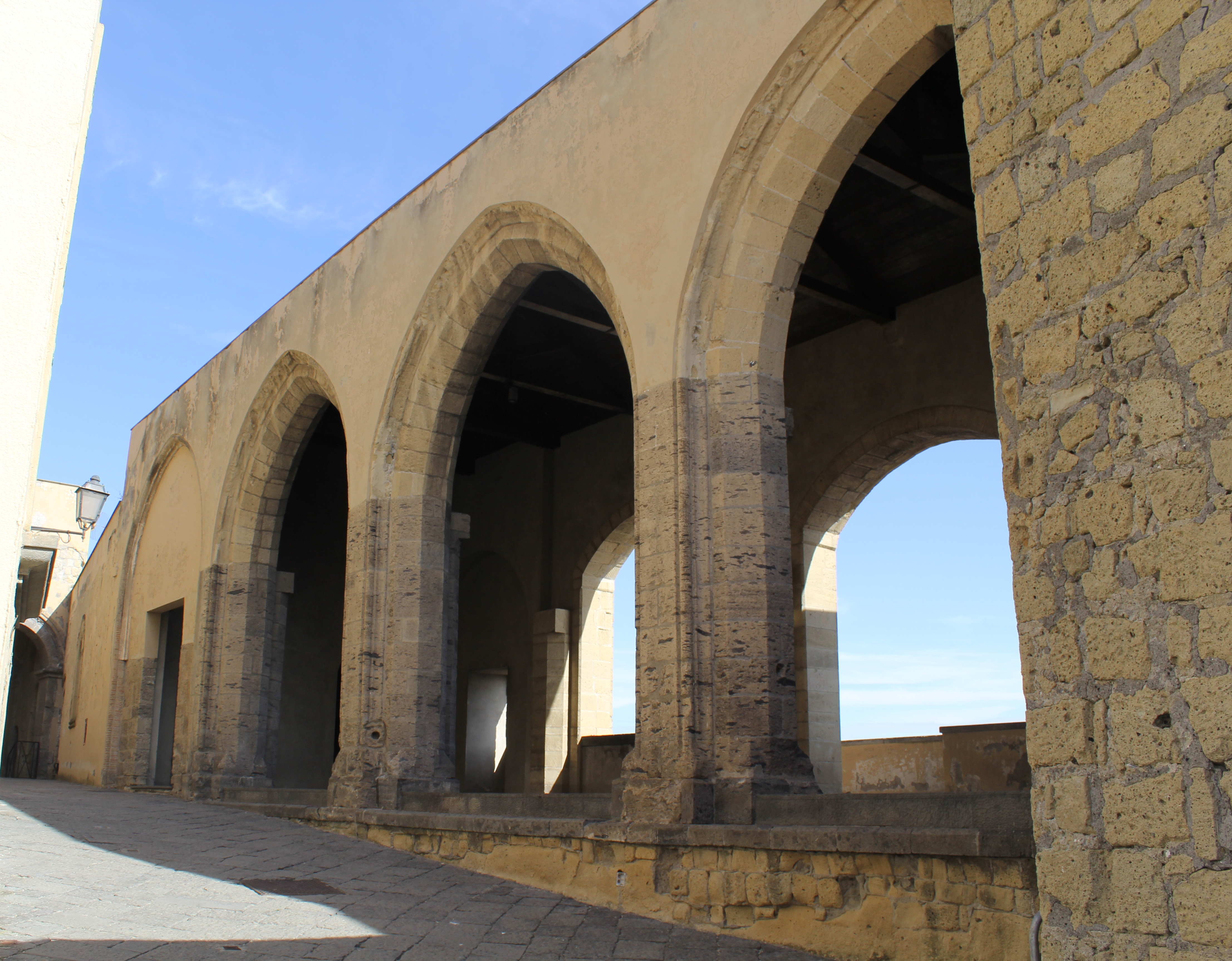 Castel dell'Ovo (17) This file was generated using equipment from Wikimedia UK, a Wikimedia local chapter.